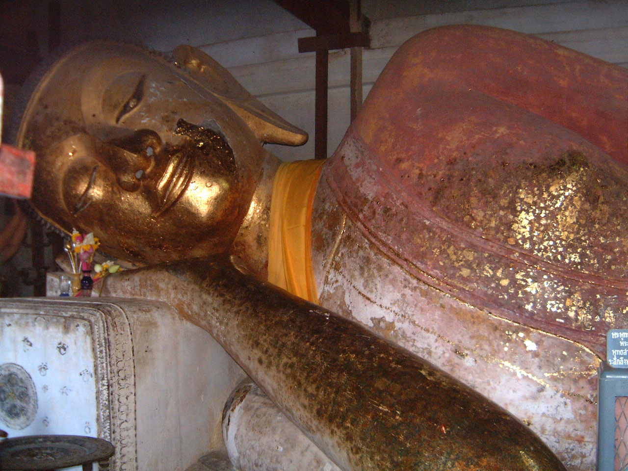 Wat Phra Baromathat Nakhon Srithammarat Nakhon Si Thammarat Acred99 (talk) 09:20, 9 March 2009 (UTC)